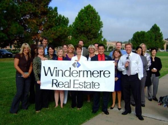 Joe Lizura Liveshot for Good Morning San Diego with walk-a-thon sponsor Windermere Real Estate